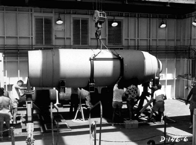 The Runt I nuclear explosive device used in the Castle Romeo nuclear test.